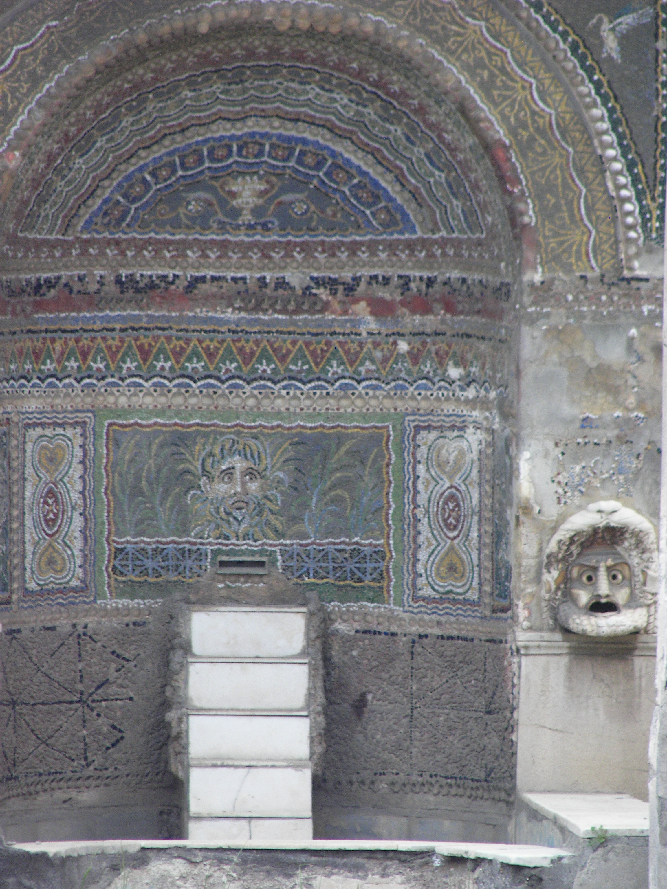 House of the Large Fountain in Pompeii.